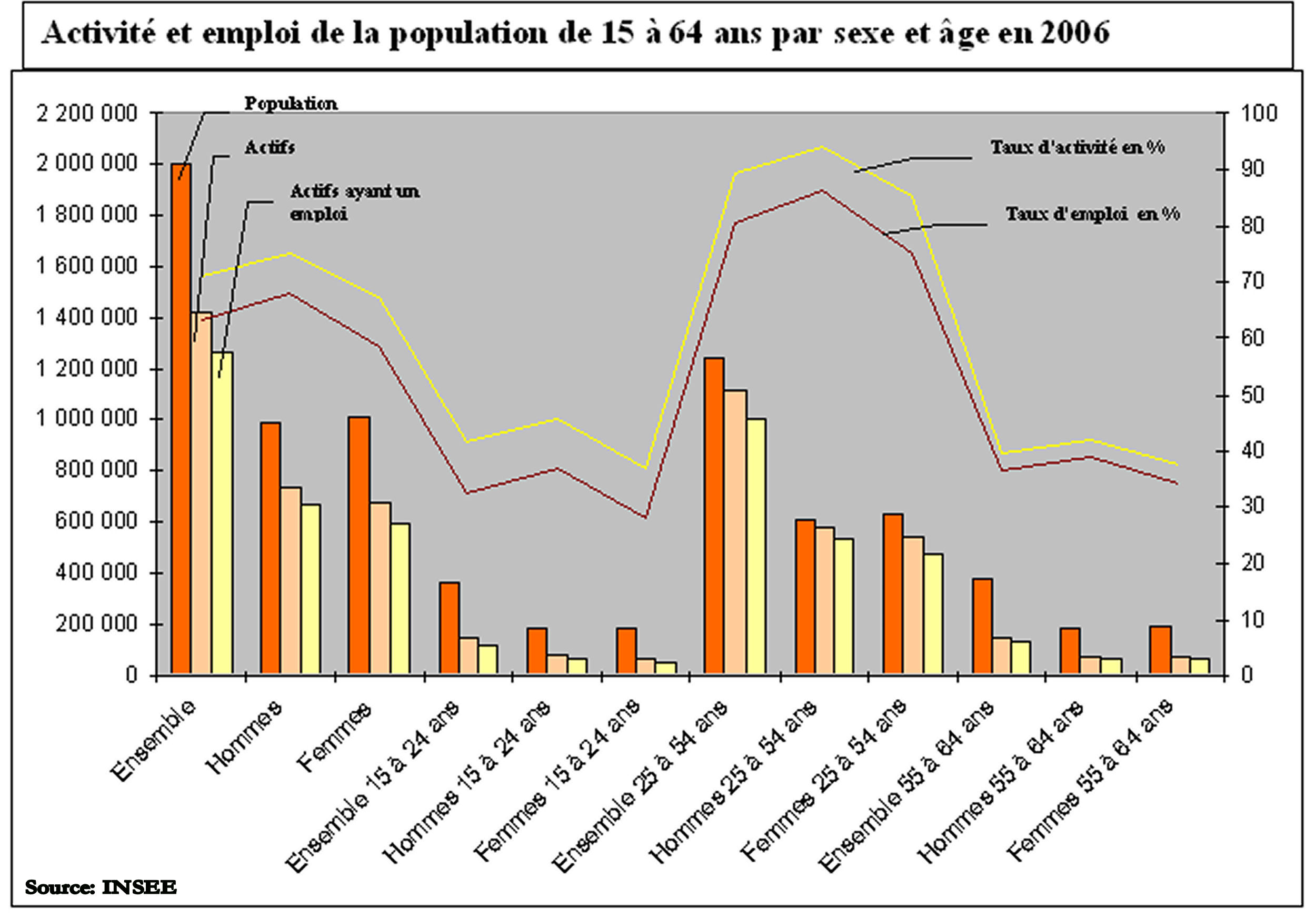 Activity and employment in 2006, in Aquitaine, by age group and sex